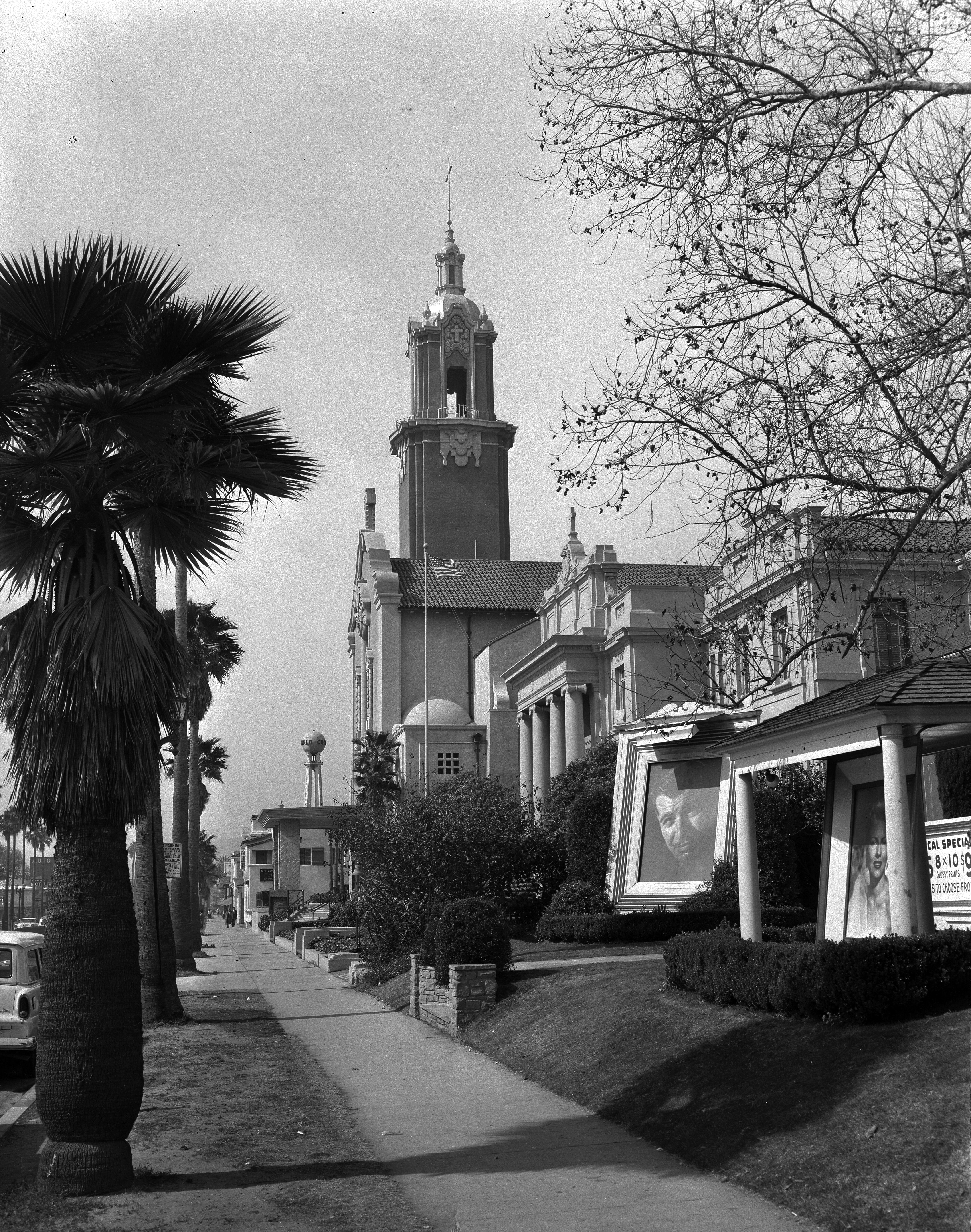 Title: Know Your City No.110 Church of the Blessed Sacrament Hollywood, Calif. Published caption:KNOW YOUR CITY, NO.110 -- This photo has so many clues as to its locality surely you can guess where it is. All that remains then, is what it is. All right, it's a church. But WHICH church? That is narrowing it down some. See Page 30, Part ll. Publication:Los Angeles Times Publication date:March 6, 1956 Notes:ANSWER: That enlarged photo of a movie actor and that high-perched globe at the Crossroads of the World and those palm trees should've told you that the photo was made on Sunset Blvd. The beautiful edifice itself is the church of the Blessed Sacrament at 6657 Sunset blvd., truly one of Hollywood's most magnificent churches. Source:Los Angeles Times photographic archive, UCLA Library Licensing Note about non-renewal of copyright: [1]